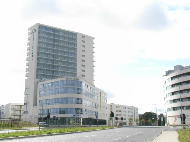 Days Hotel, Ballymun The Ballymun high-rises are much better looking these days.